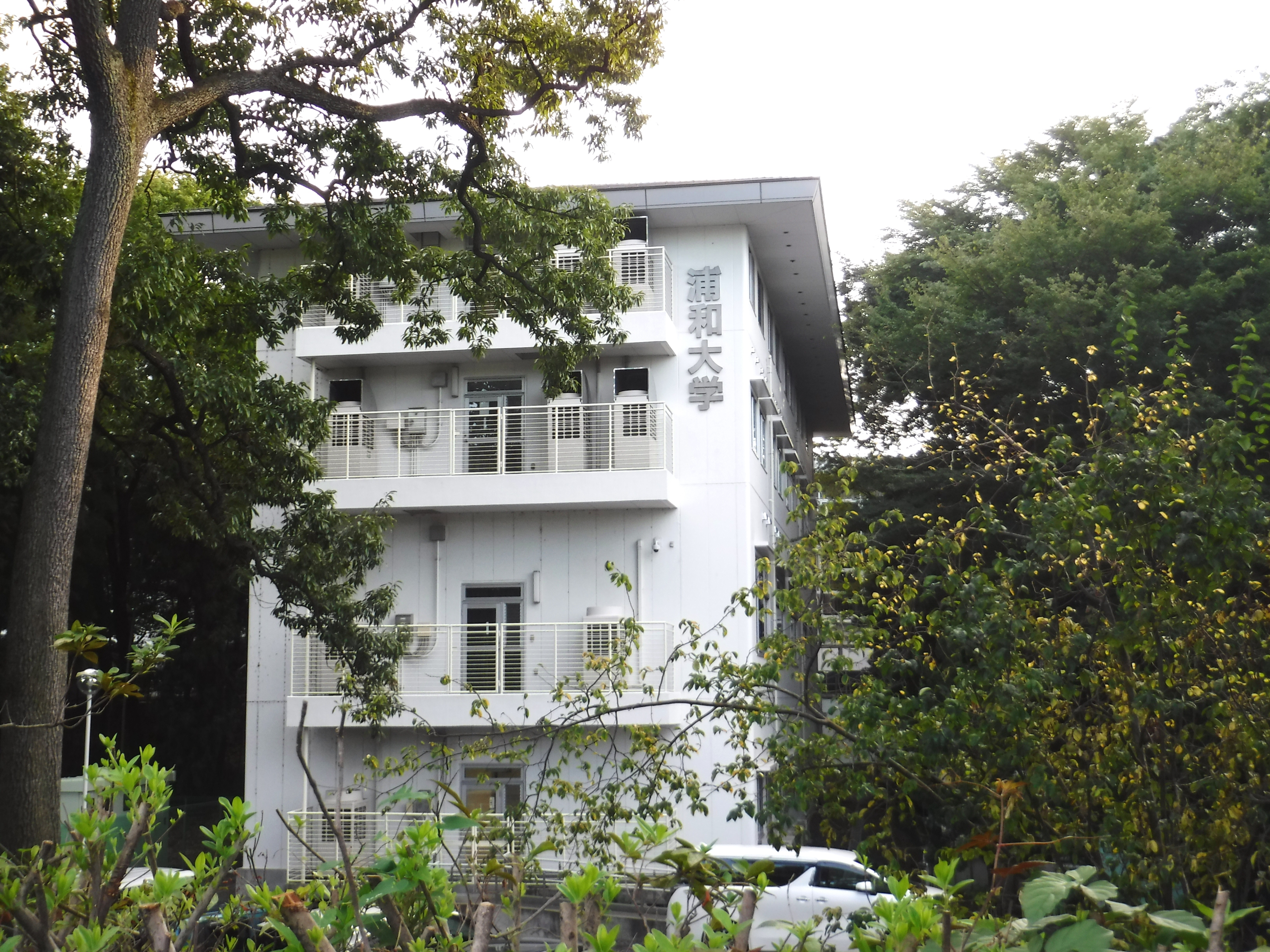 Building #2, Urawa University, located in Midori-ku, Saitama City (formerly Urawa City), Saitama Prefecture, Japan.